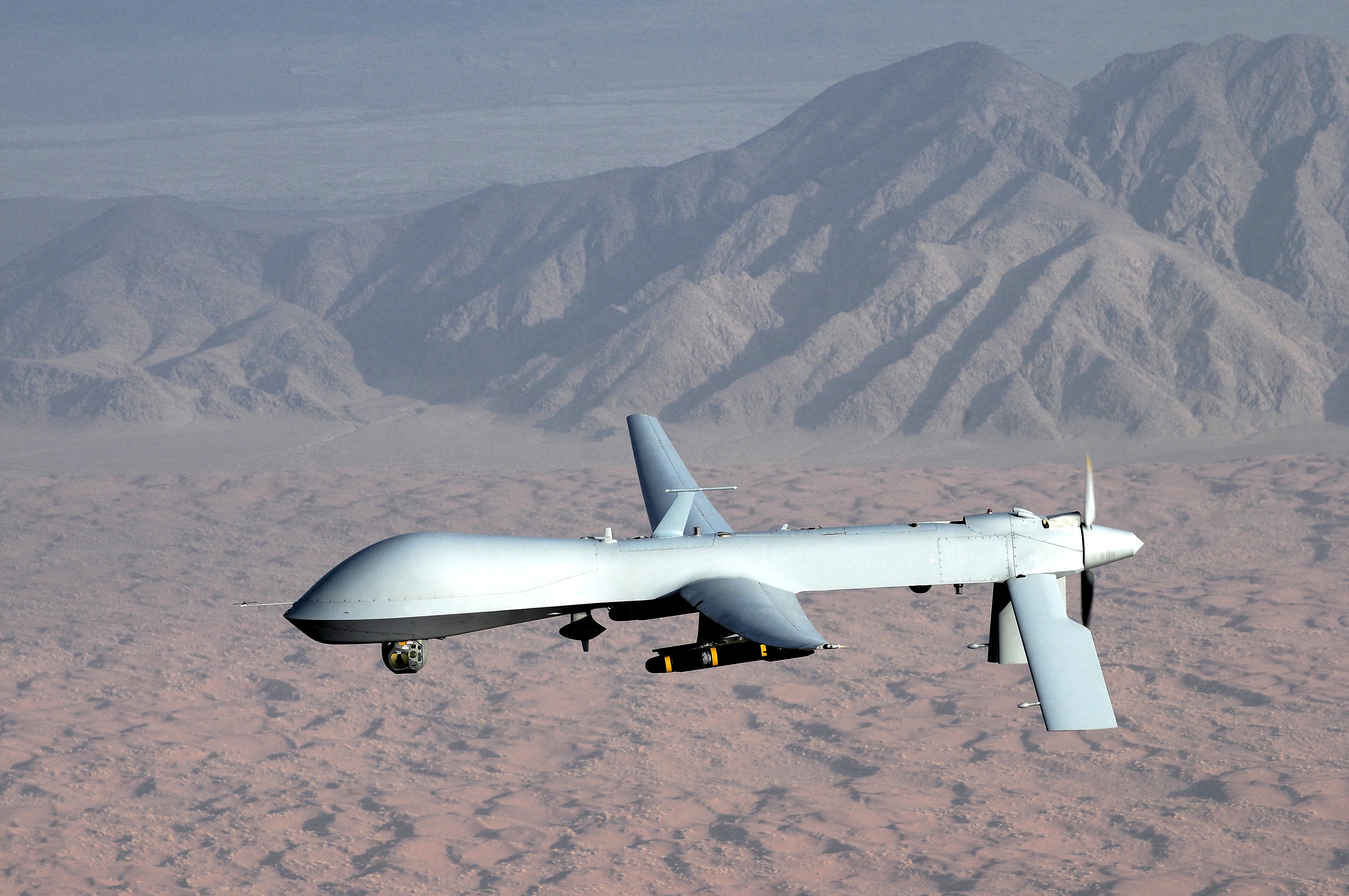 US Air Force MQ-1 Predator unmanned aerial vehicle. U.S. Air Force photo by Lt. Col. Leslie Pratt.